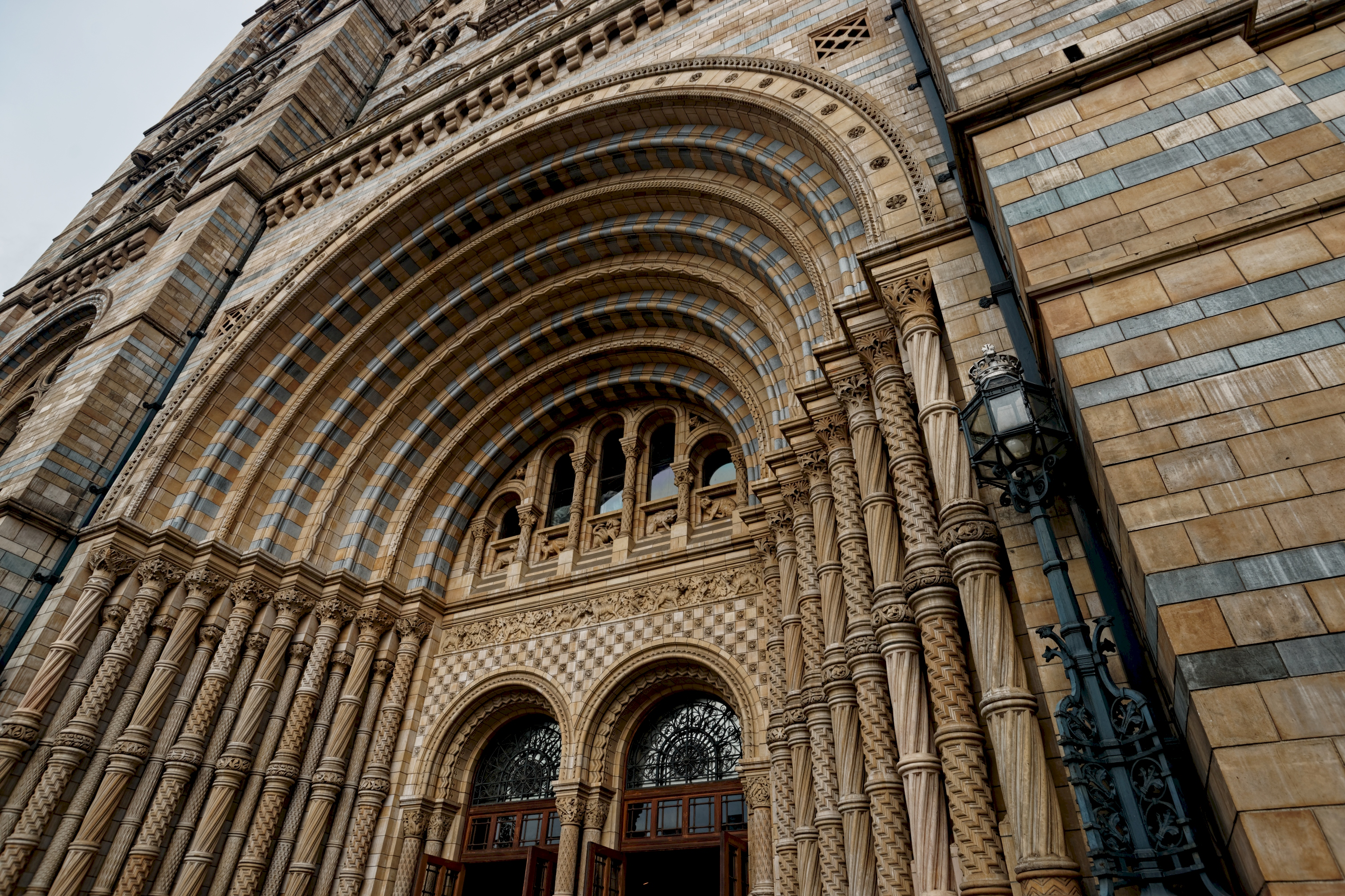 London - Cromwell Road - Natural History Museum 1881 by Alfred Waterhouse - View NW & Up at the Entrance on the Terracotta Tiled Façade